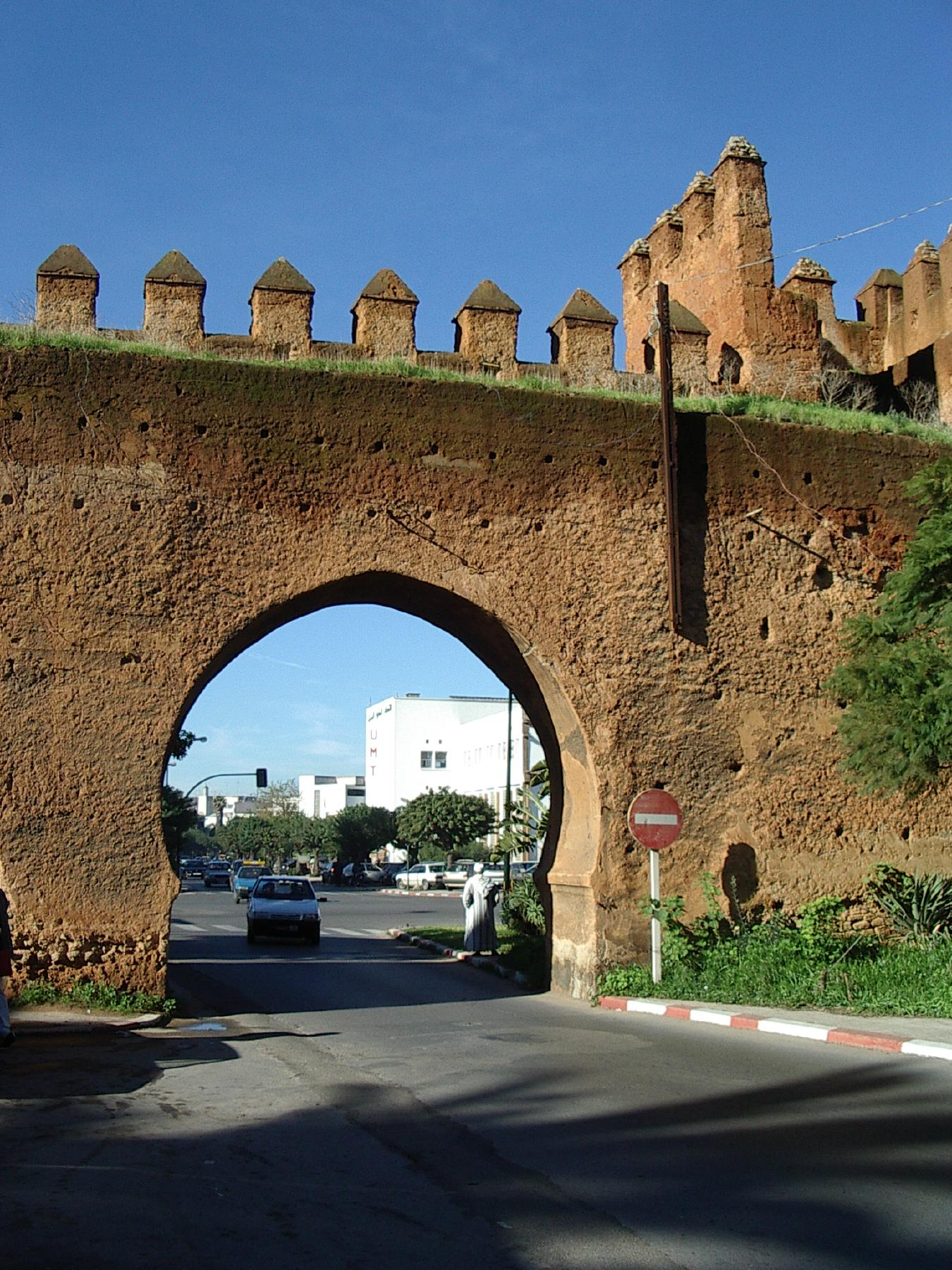 City walls of Rabat, Morroco